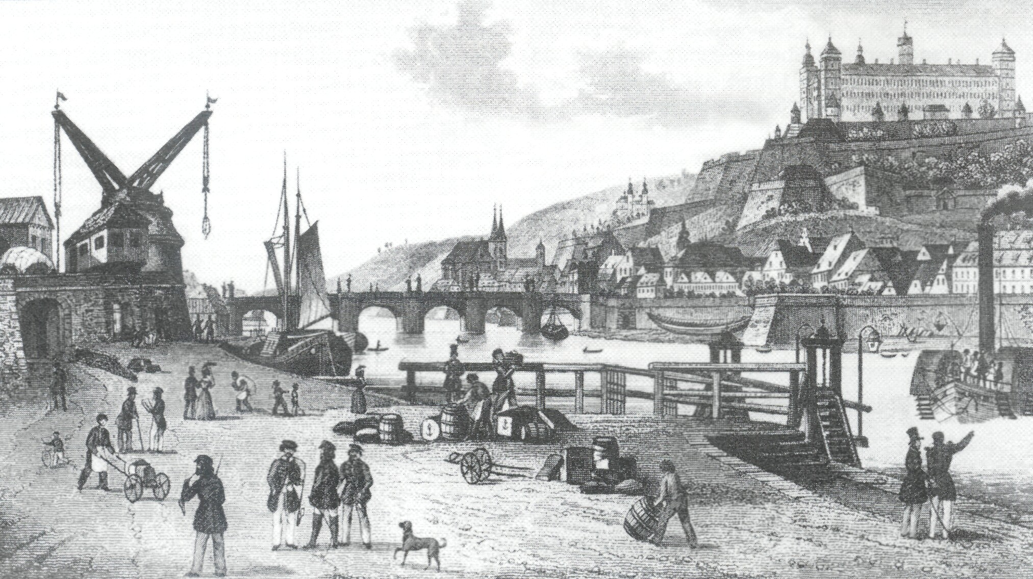 Würzburg, at the beginning of the 19th century (paddlewheeler/steam ship)